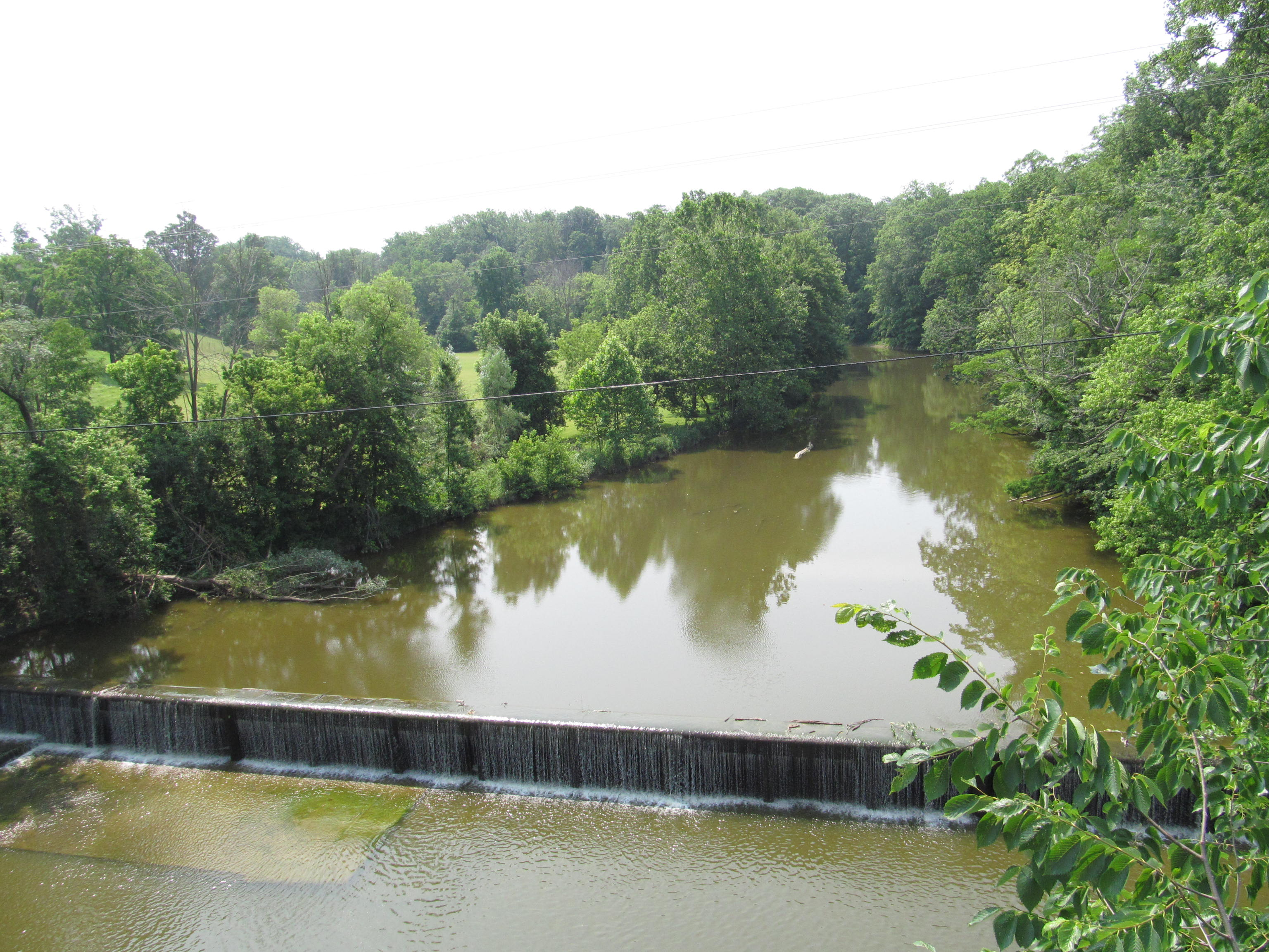 A dam on the Vermilion River, seen looking south from Main Street (U.S. Route 20) in eastern Wakeman, Ohio, United States.